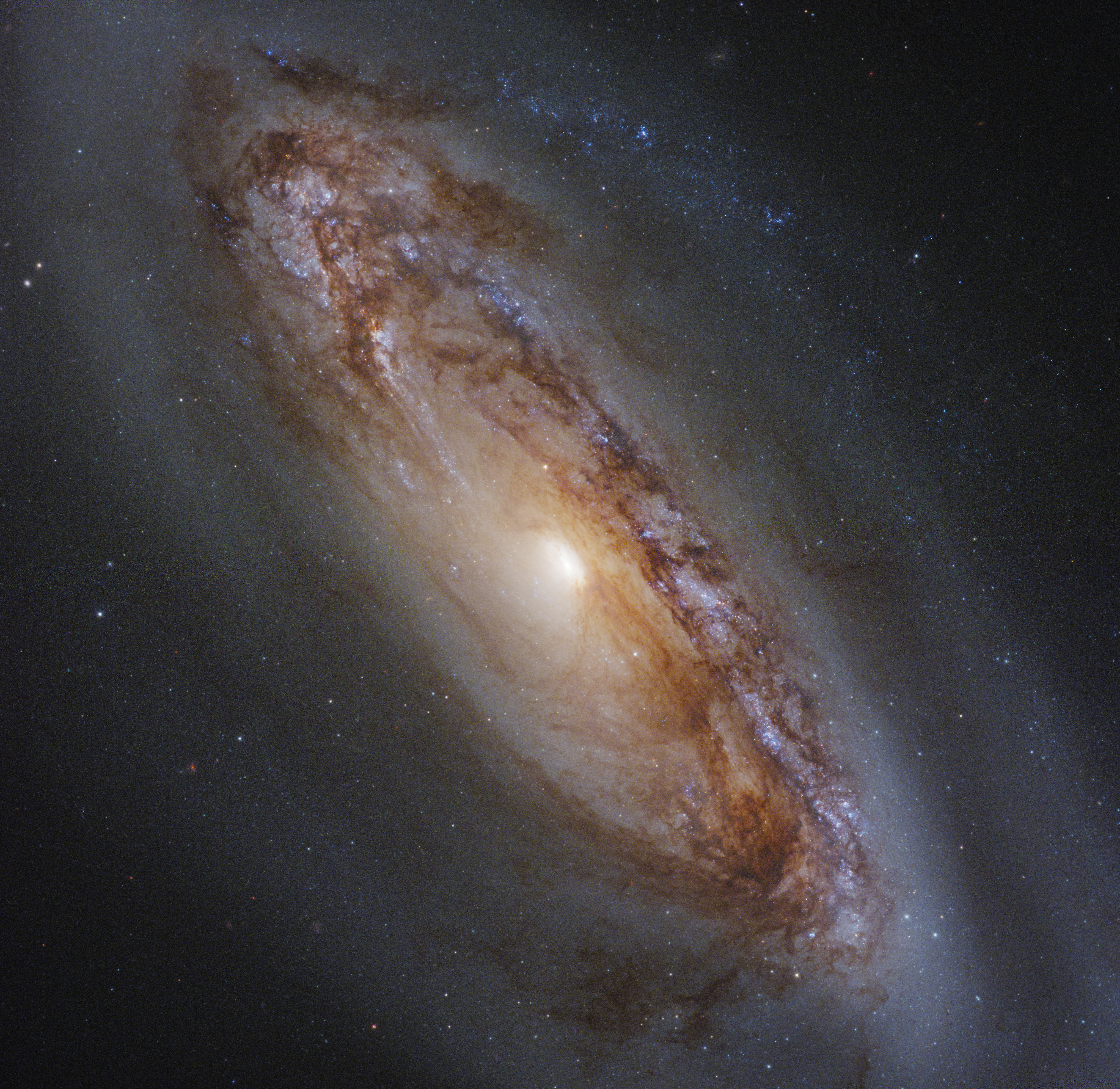 Also known as M90 or Messier 90, this spiral galaxy exhibits less star formation than usual due to a phenomenon called ram pressure stripping. Gas that could have collapsed to form stars was instead stripped away as the galaxy moved through the intracluster medium between galaxies. Space may be mostly empty, but a galaxy moving fast enough through it can feel it. This galaxy was observed as part of the wonderful PHANGS-HST. Red: WFC3/UVIS F814W Green: WFC3/UVIS F555W WFC3/UVIS F438W+F336W North is 18.79° counter-clockwise from up.